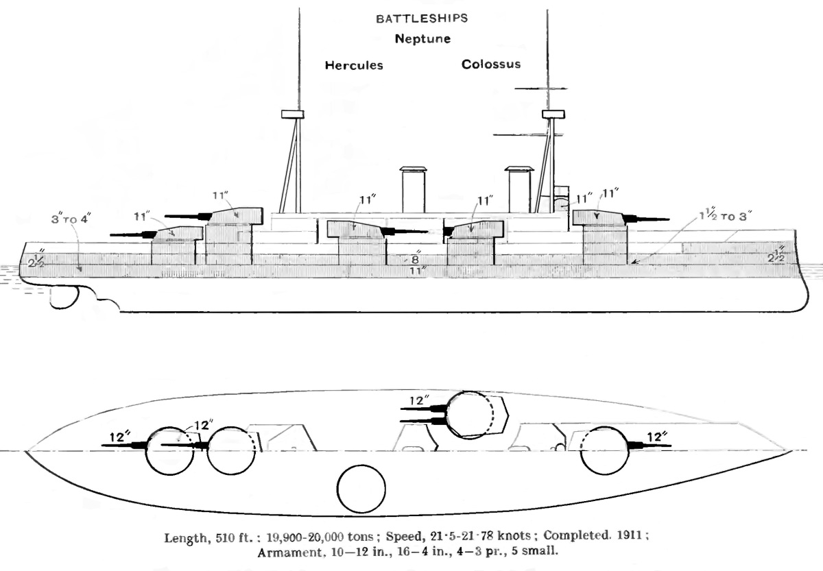 Right elevation and deck plan of British battleship HMS Neptune. Brassey's describes this as a Colossus class ship, but the masts are shown totally incorrect here. Colossus class had only a foremast, positioned behind the first funnel. This diagram shows masts for HMS Neptune. Numbers on top diagram show armour thickness (shaded areas) in inches. Numbers on bottom diagram show size of guns in inches.